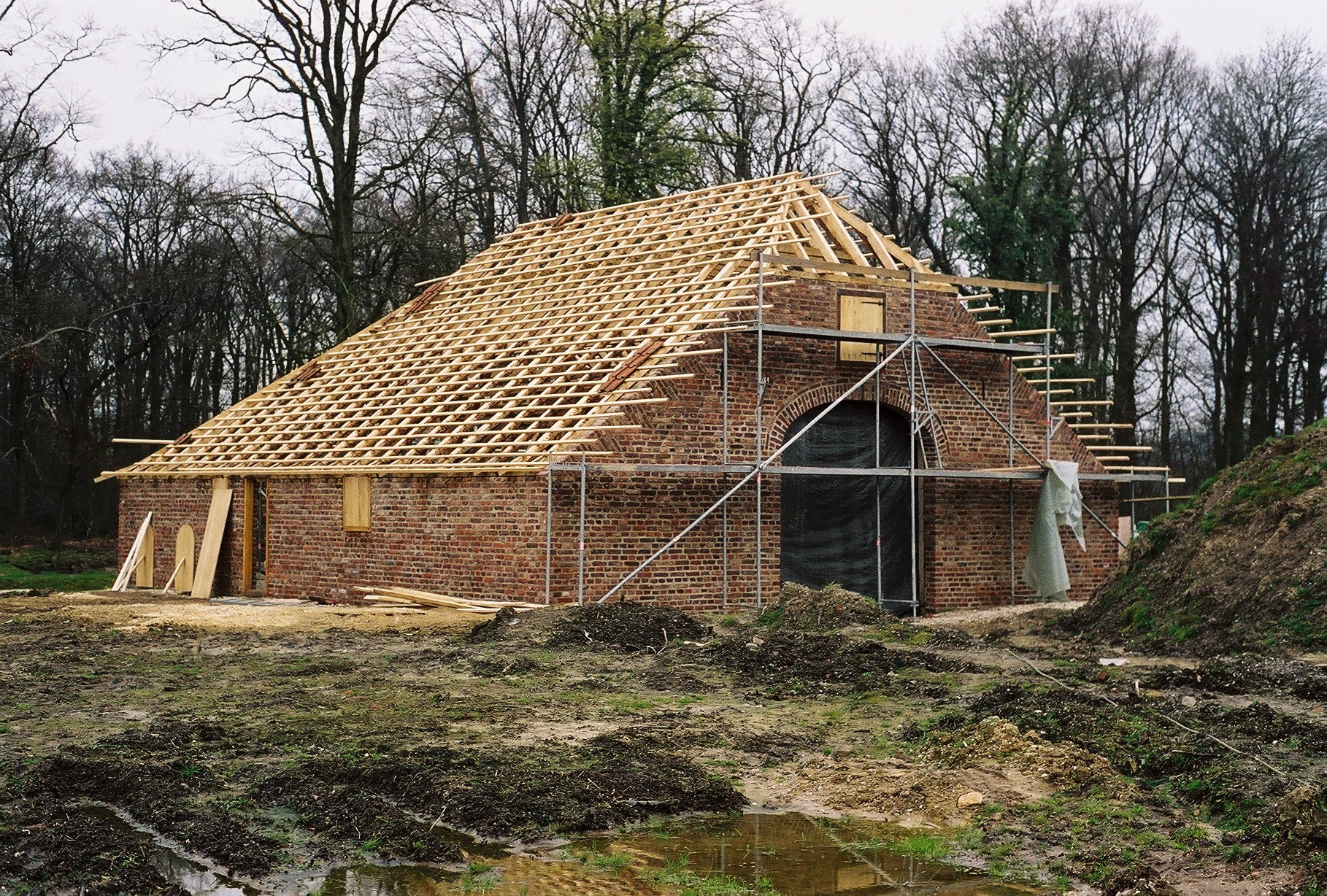 Translozierte Scheune (Anfang 19. Jh.), Haus Kolk